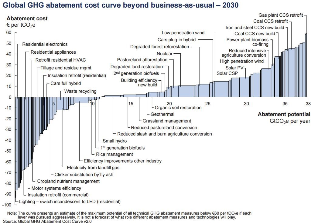 Global GHG abatement coast curve beyond business-as-usual until 2030